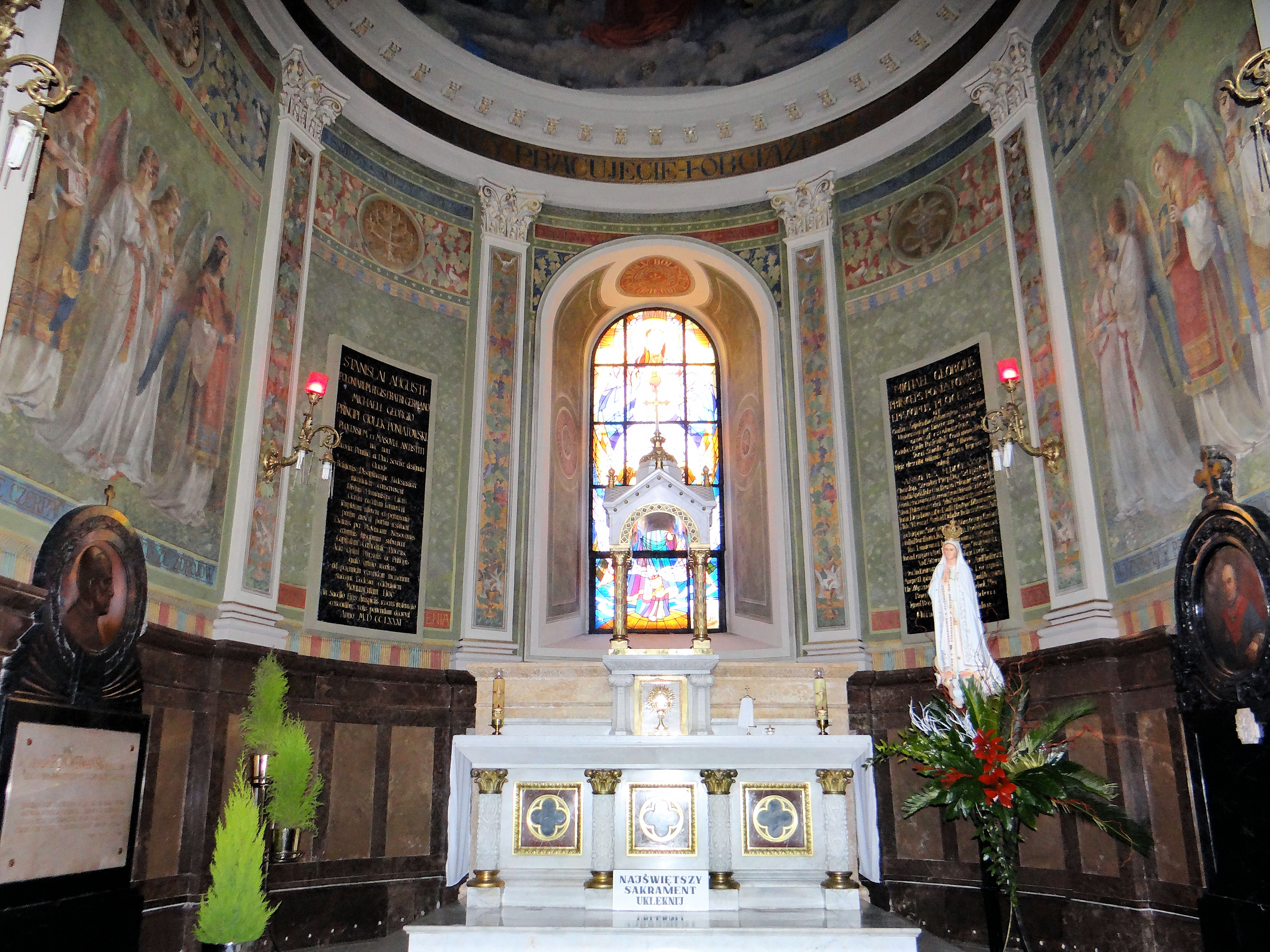 Altar of Płock Cathedral